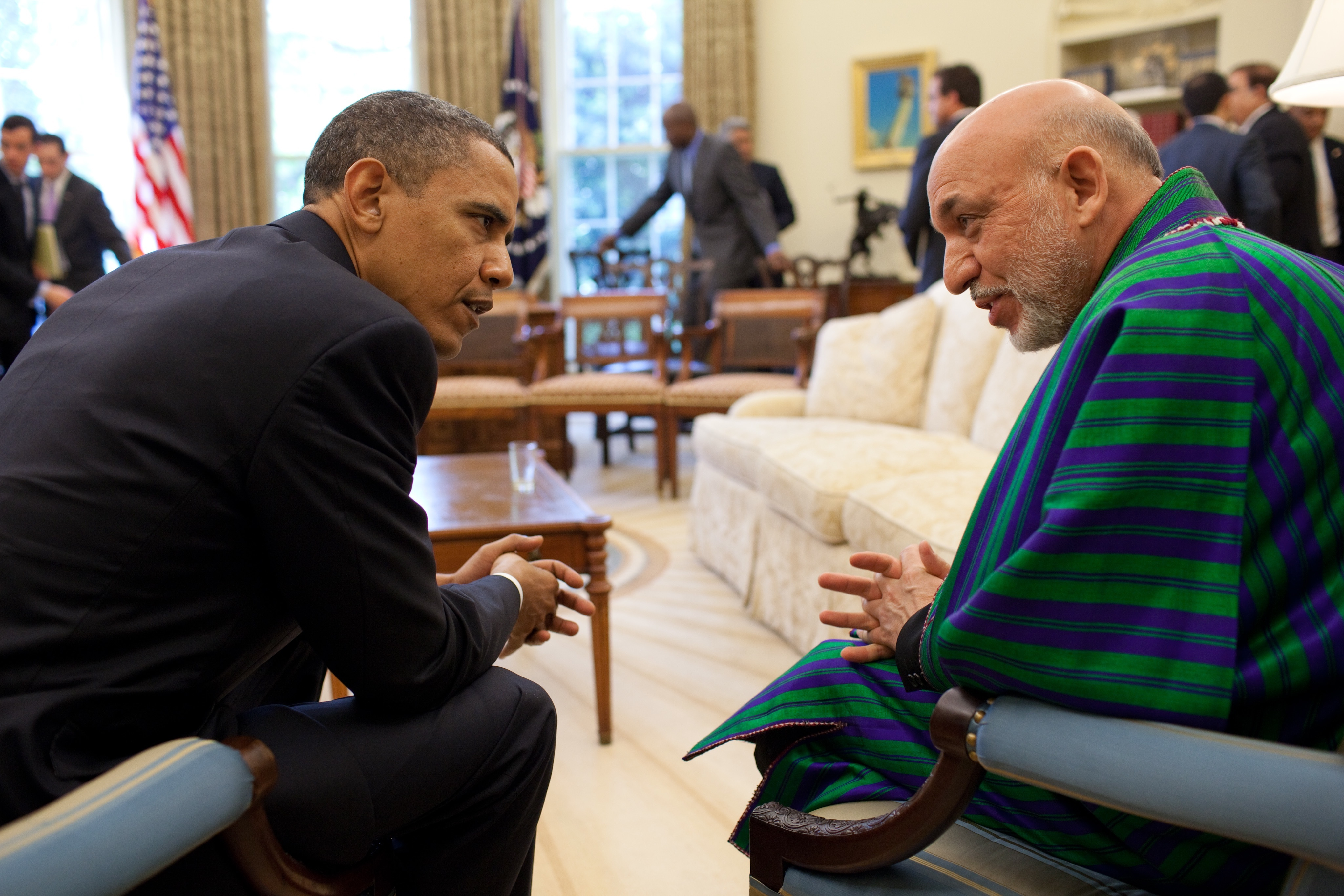 President Barack Obama holds a bilateral meeting with President Hamid Karzai of Afghanistan in the Oval Office in the White House in Washington, D.C., on May 12, 2010. Participants include: Lt. Gen. Douglas (Doug) Lute, Special Assistant for Afghanistan and Pakistan, General Stanley McChrystal, Commander International Security Assistance Force, Secretary of State Hillary Rodham Clinton, Secretary of Defense Robert Gates, National Security Advisor Gen. James L. Jones, Deputy National Security Advisor Tom Donilon, Chairman of the Joint Chiefs of Staff Admiral Mike Mullen, and United States Ambassador to Afghanistan Karl Eikenberry. Afghans participants include: Dr. Zalmai Rassoul, Dr. Rangin Spanta, Said Tayeb Jawad, Gen. Rahim Wardak, Mohammed Haneef Atmar, Dr. Hazrat Zakhilwal, Mohammed Asif Rahimi, Dr. Ashraf Ghani Ahmadzai, and Mahammad Masoom Sanekzai. [White House Photo]